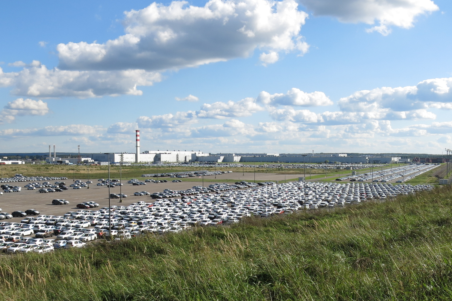 Overview of Volkswagen GROUP RUS assembly plant in Kaluga